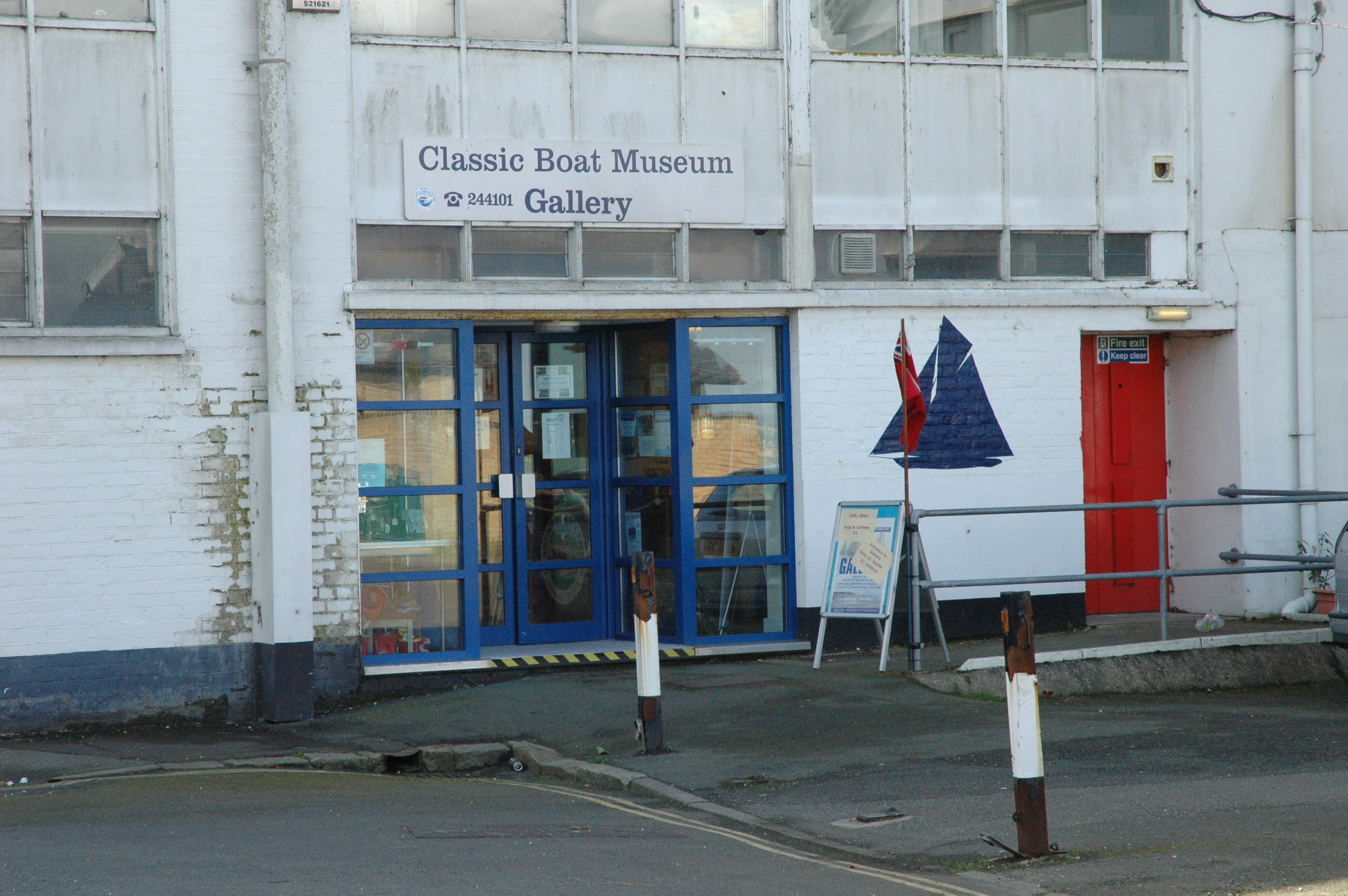 Entrance to Classic Boat Museum Gallery